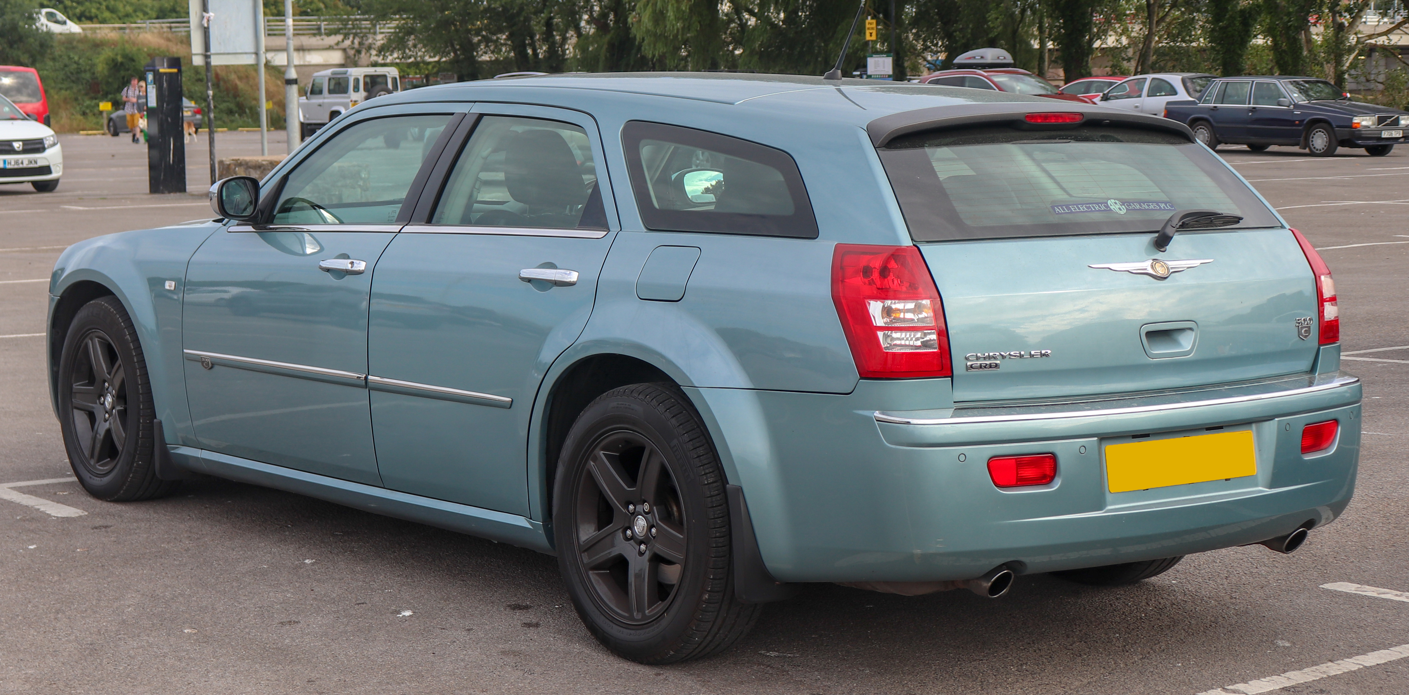 2010 Chrysler 300C CRD Automatic 3.0 Estate Rear Taken in Weymouth, Dorset